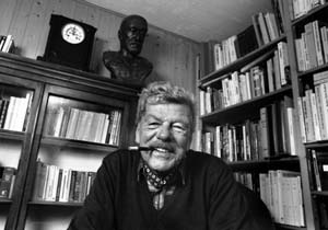 Armand Forel